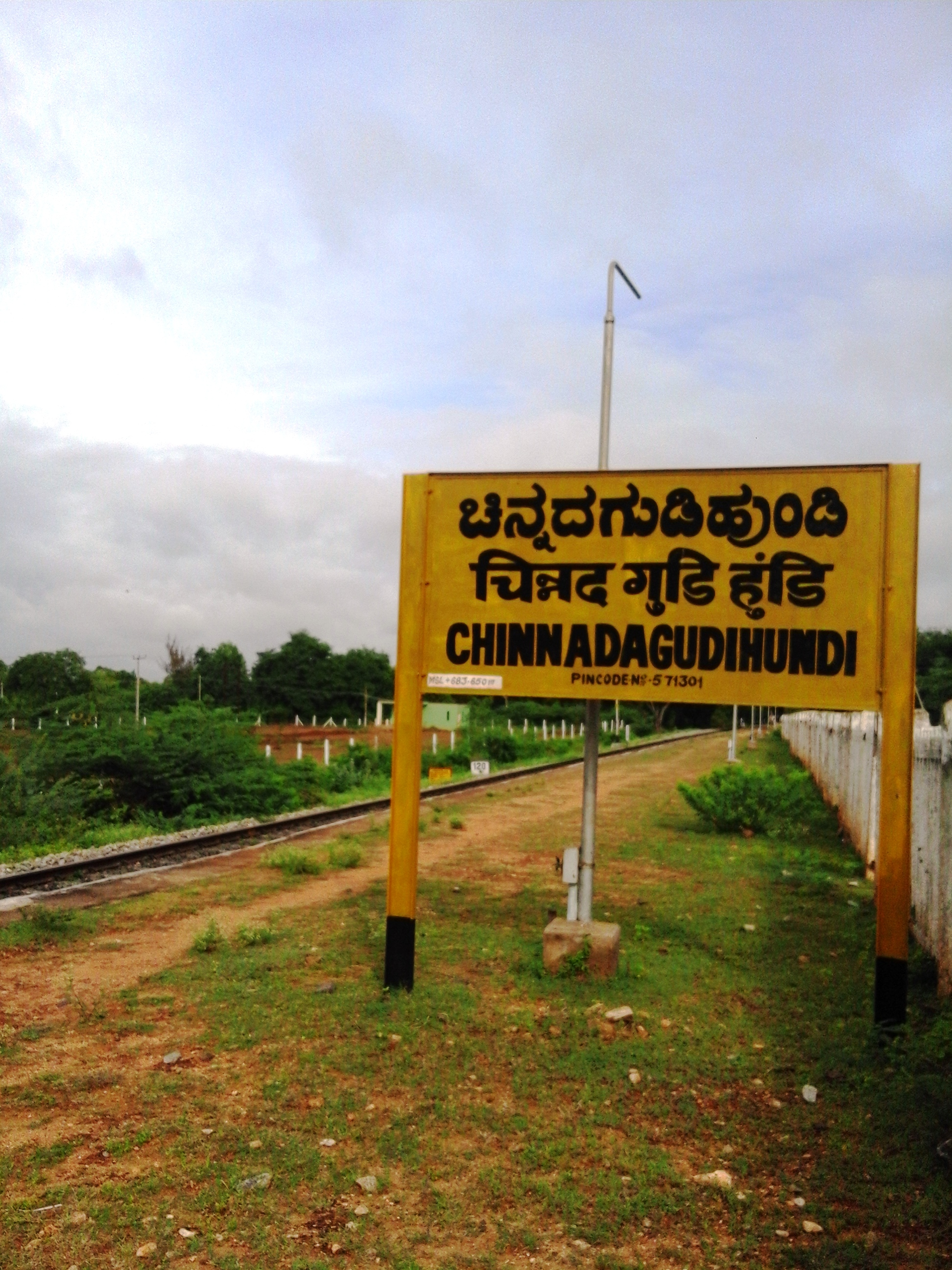 Chinnadagudihundi village, Nanjangud Taluk, Mysore district, Karnataka state, India.